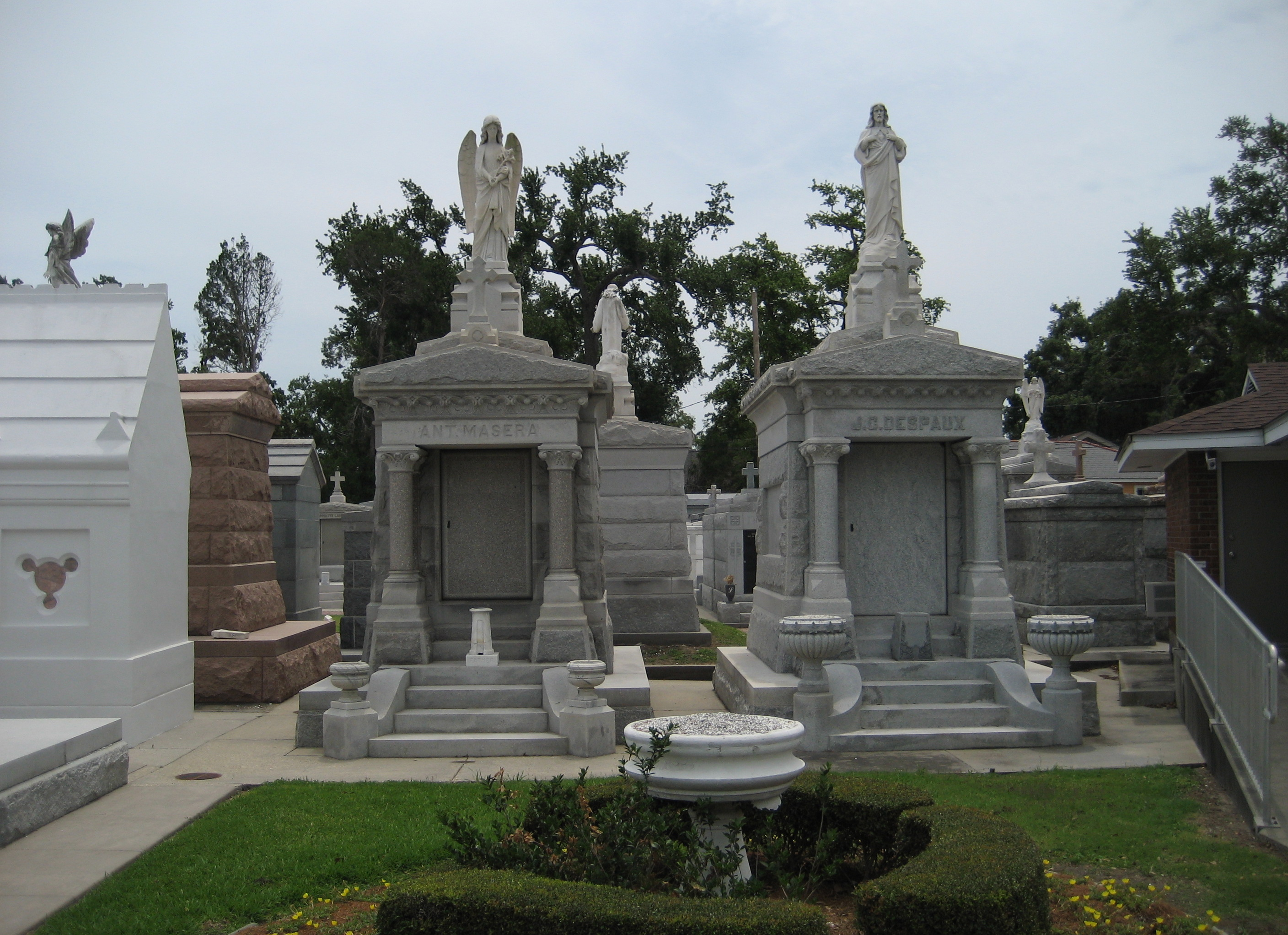 St. Louis Cemetery #3, New Orleans